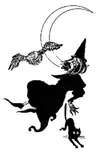 Illustration from book The Goblins' Christmas by Elizabeth Anderson.